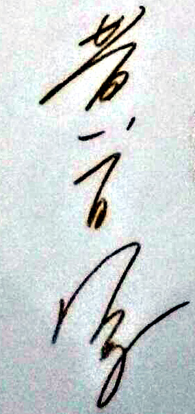 This is Raymond Wong's signature.